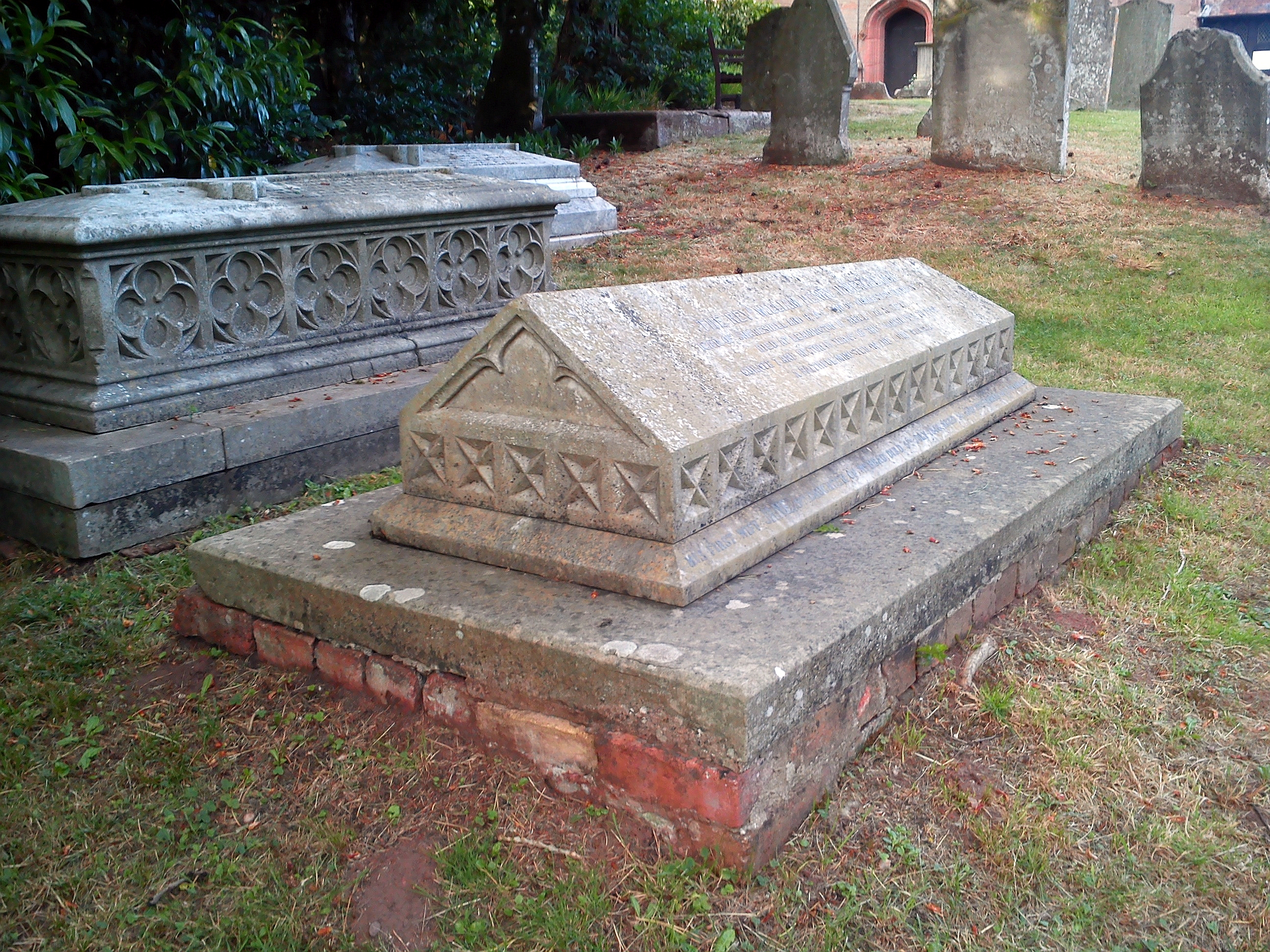 Astley, Worcestershire, St Peter's Church: grave of Frances Ridley Havergal (1836–1879), hymn writer, and of her father William Henry Havergal (1793–1870), clergyman and Rector of Astley